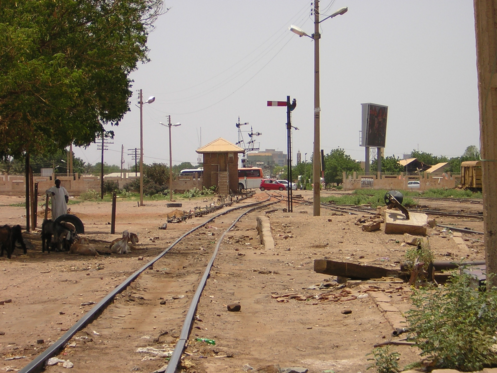 Railway station in Bahri, Khartoum, Sudan.